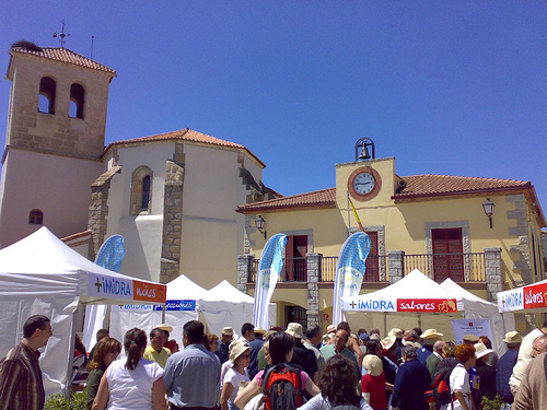 Canencia (Community of Madrid, Spain)